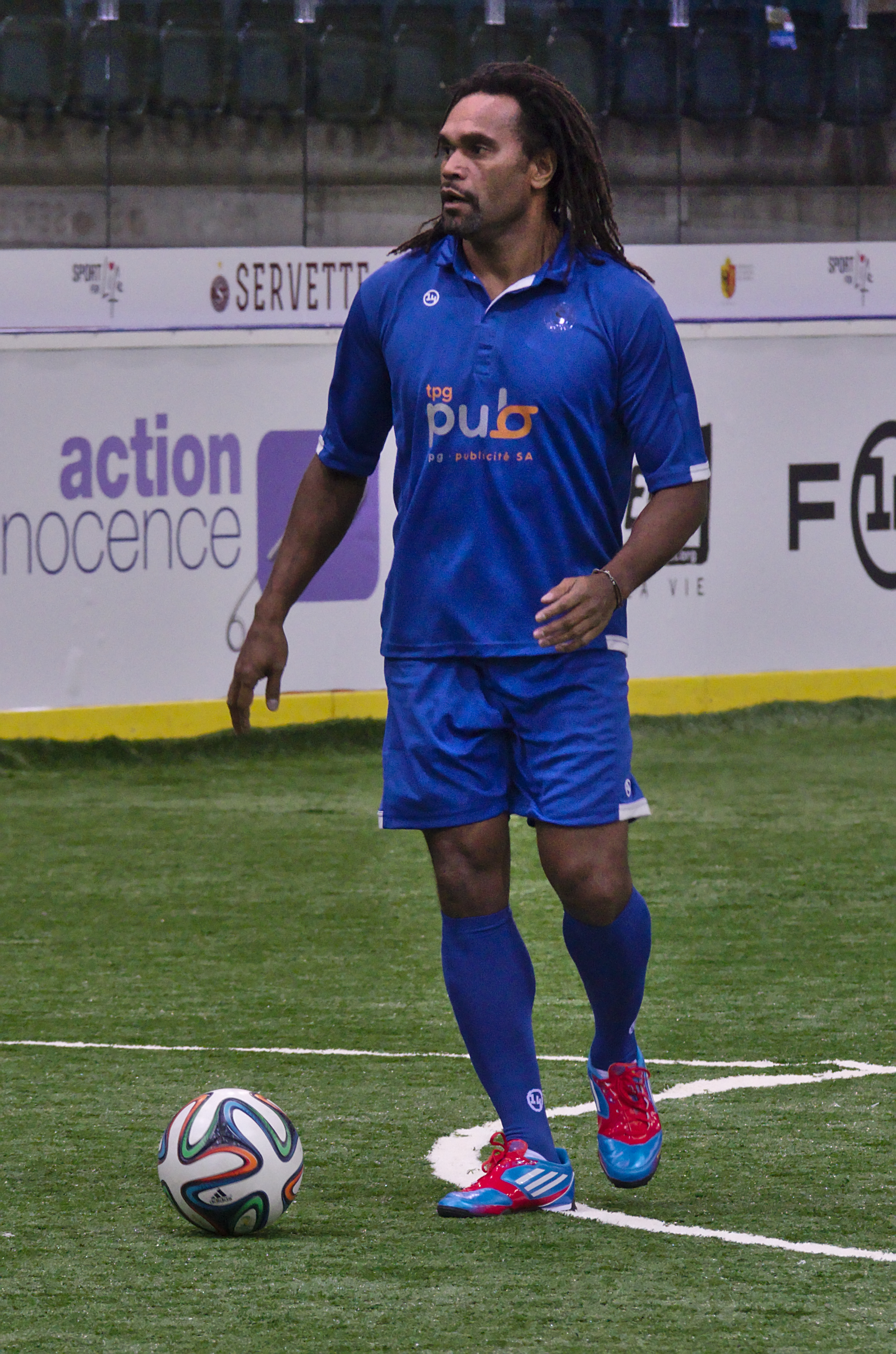 Genève Indoors 2014 - 20140114 - Christian Karembeu